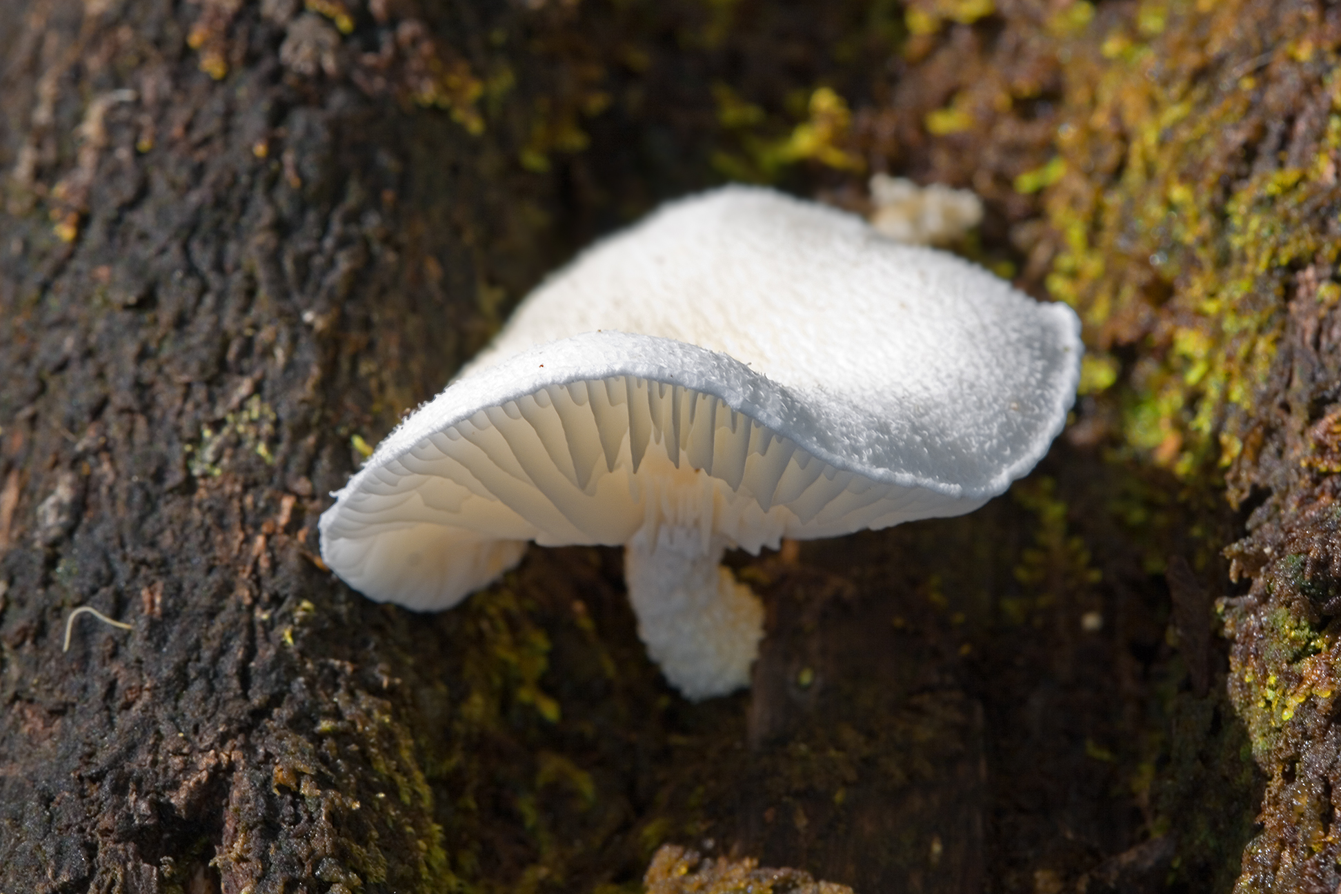 Oudemansiella australis, Wielangta Forest, Tasmania Camera data Camera Canon EOS 400D Lens Tamron EF 180mm f3.5 1:1 Macro Flash Fill Bottom Focal length 180 mm Aperture f/11 Exposure time 1/13 s Sensivity ISO 100